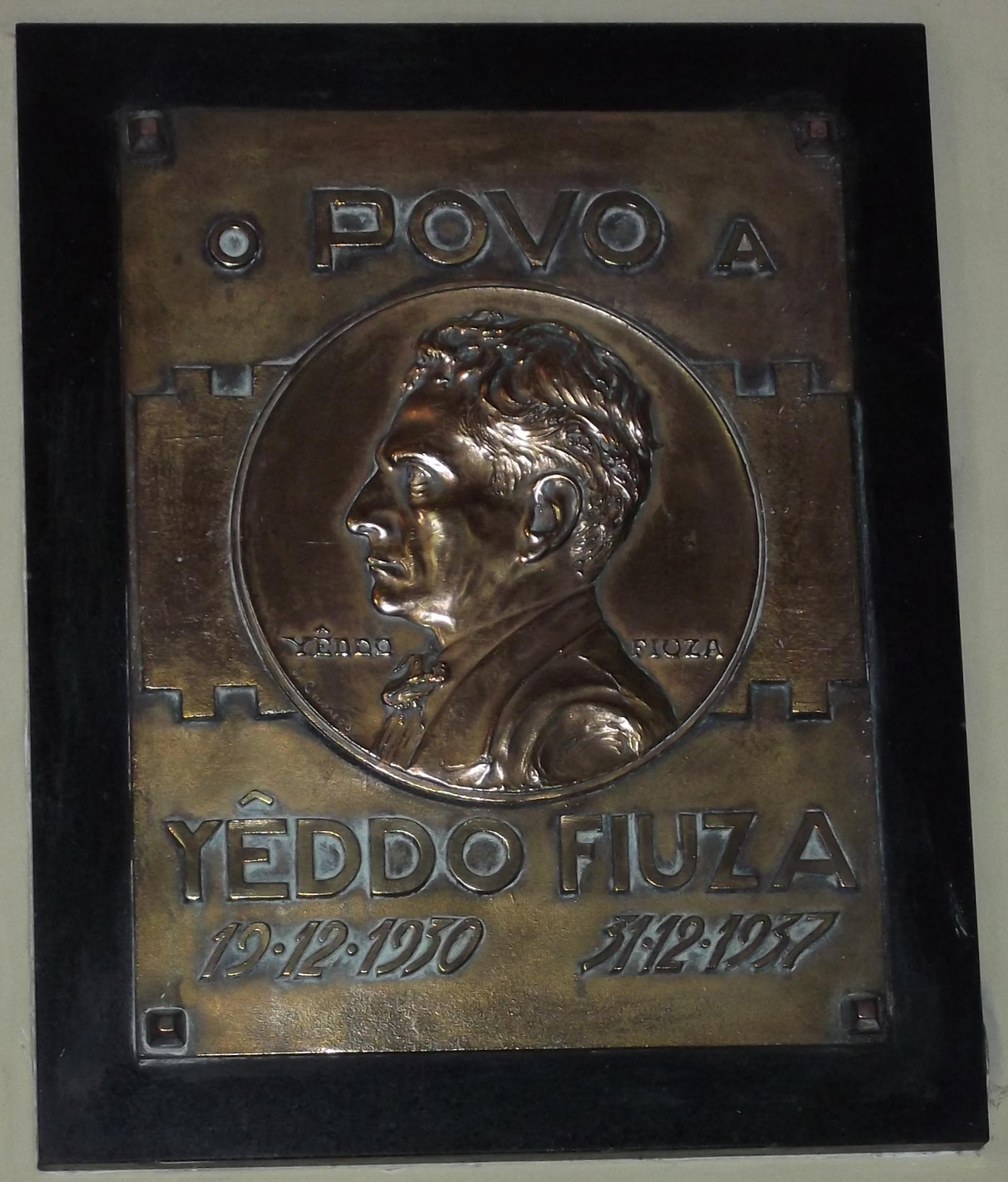 Yeddo Fiuza, Mayor of Petrópolis, Rio de Janeiro State, Brazil, 1930-1937